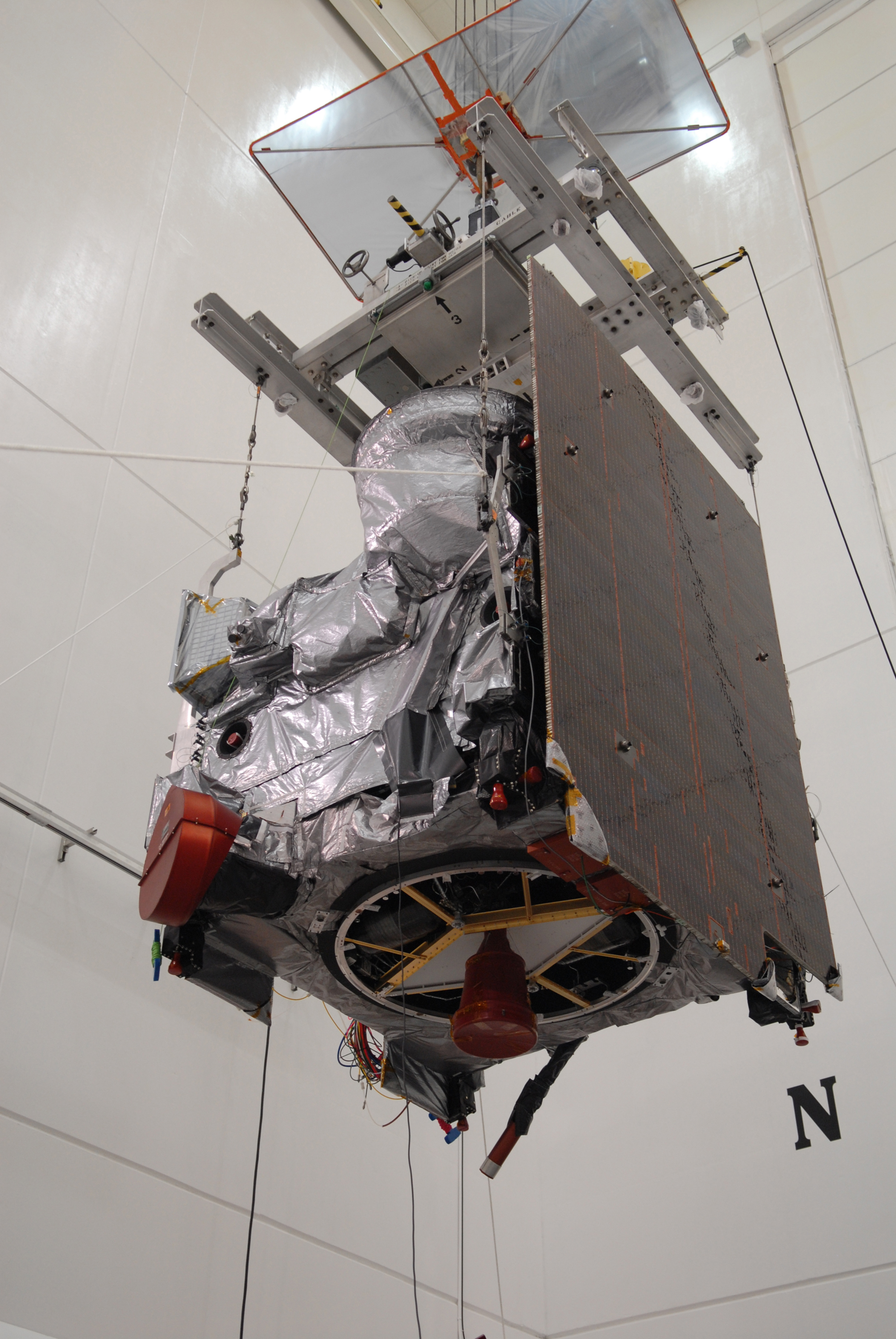 The GOES-O Satellite moves to the oxidizer and hydrazine loading place.